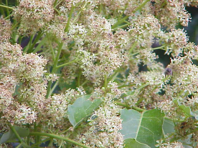 Species: Ailanthus altissima Family: Simaroubaceae Image No. 4